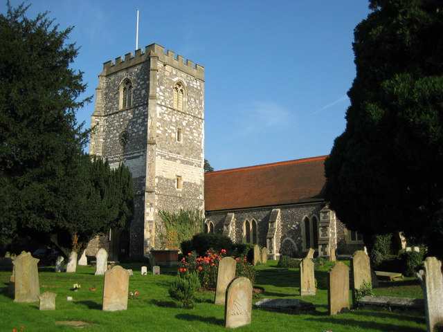 St Michael's parish church, Bray, Berkshire, seen from the south